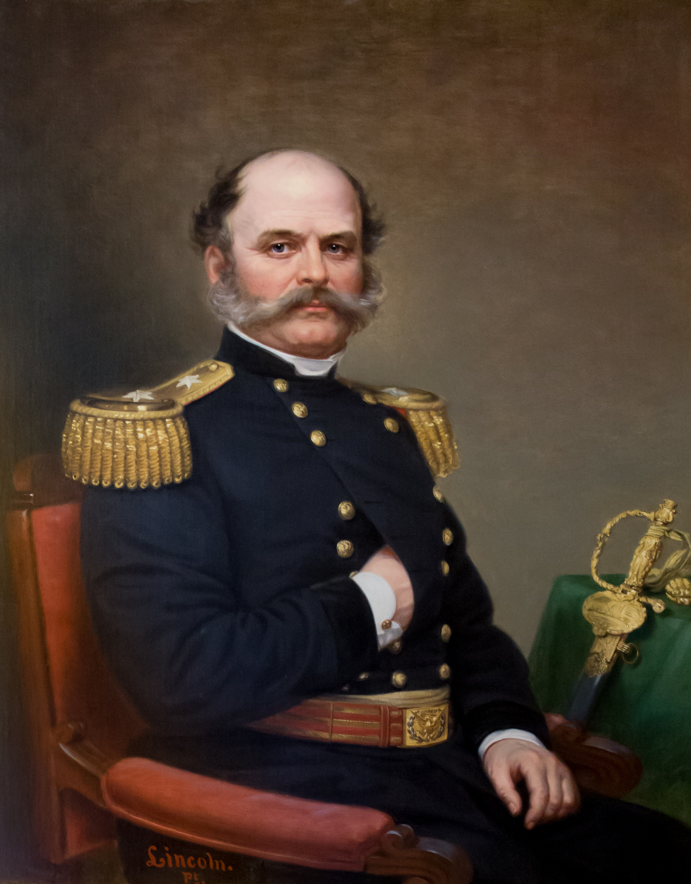 General and Governor Ambrose Burnside portrait in the Rhode Island State House collection.